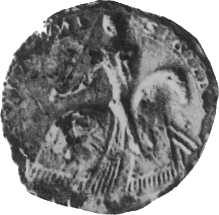 Photograph of a seal of Alan fitz Roland, Lord of Galloway (died 1234).